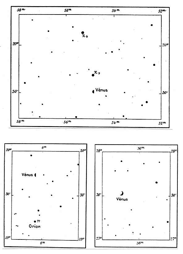 Three examples of Stroobant’s star maps, which show stars that earlier astronomers may have mistaken for the satellite of Venus